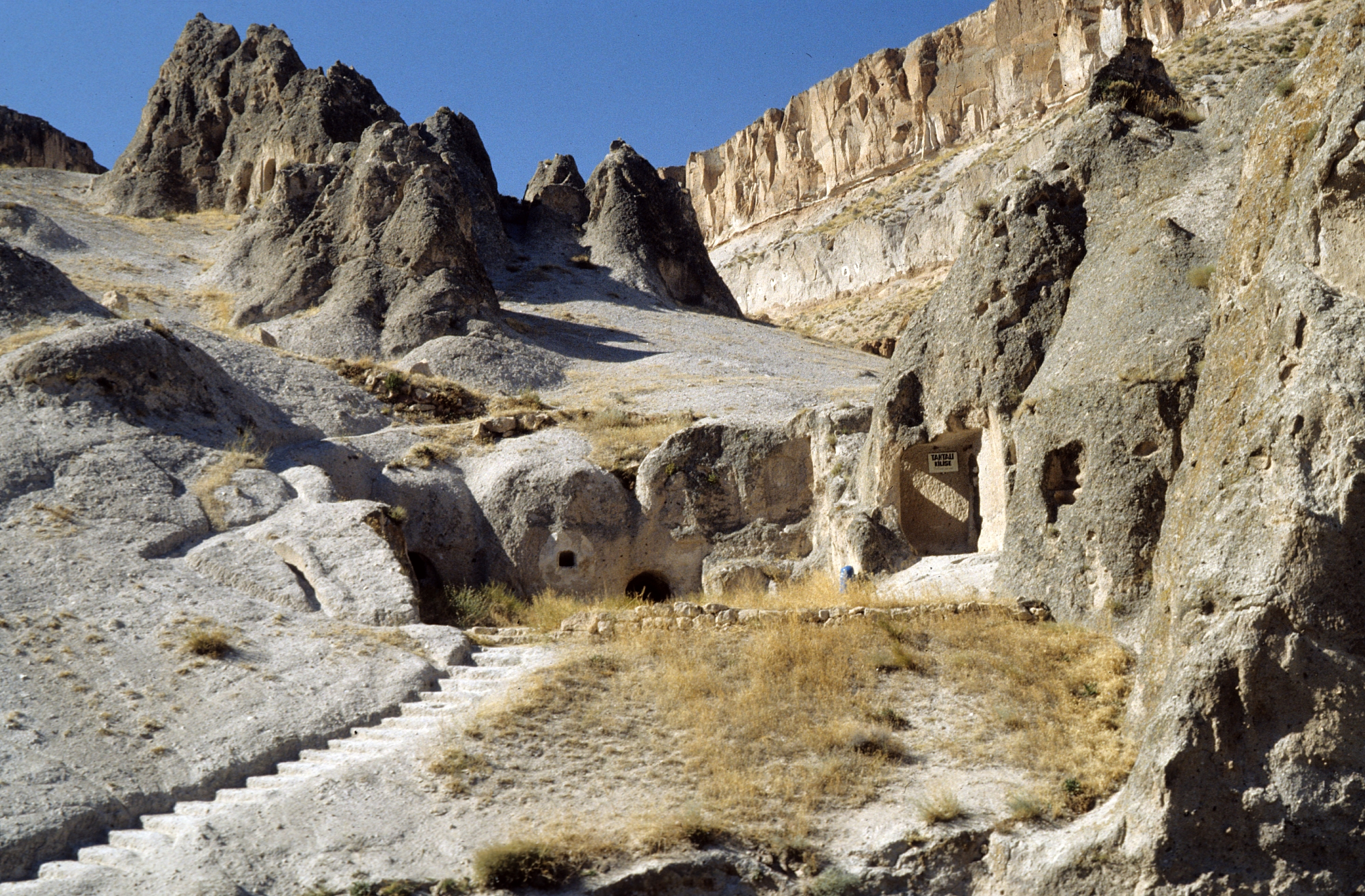 Church of Saint Barbara (Tahtalı Kilise) at Soğanlı, Yeşilhisar District, Kayseri Province